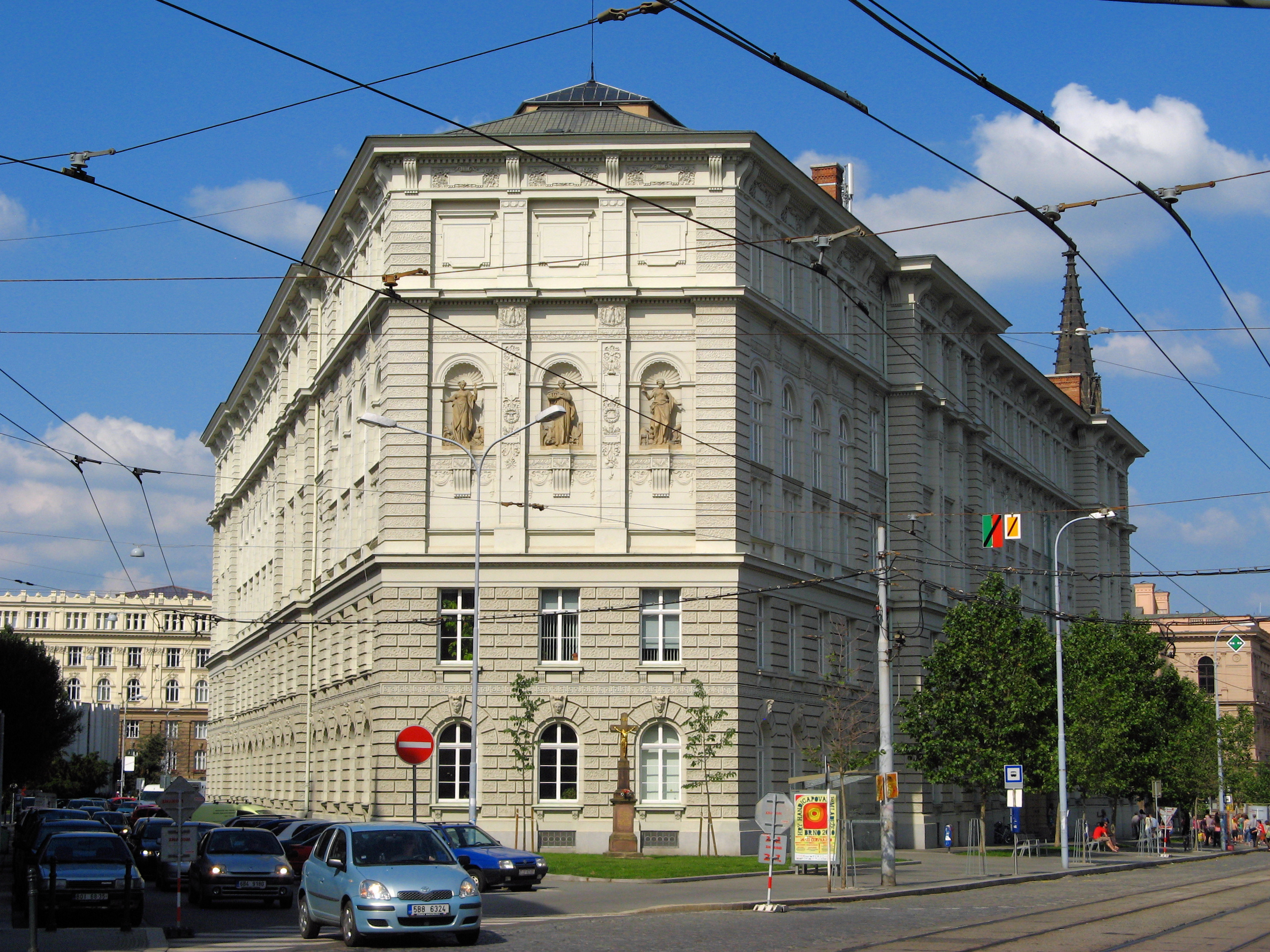 Faculty of Social Studies, Masaryk University, Brno, Czech Republic.